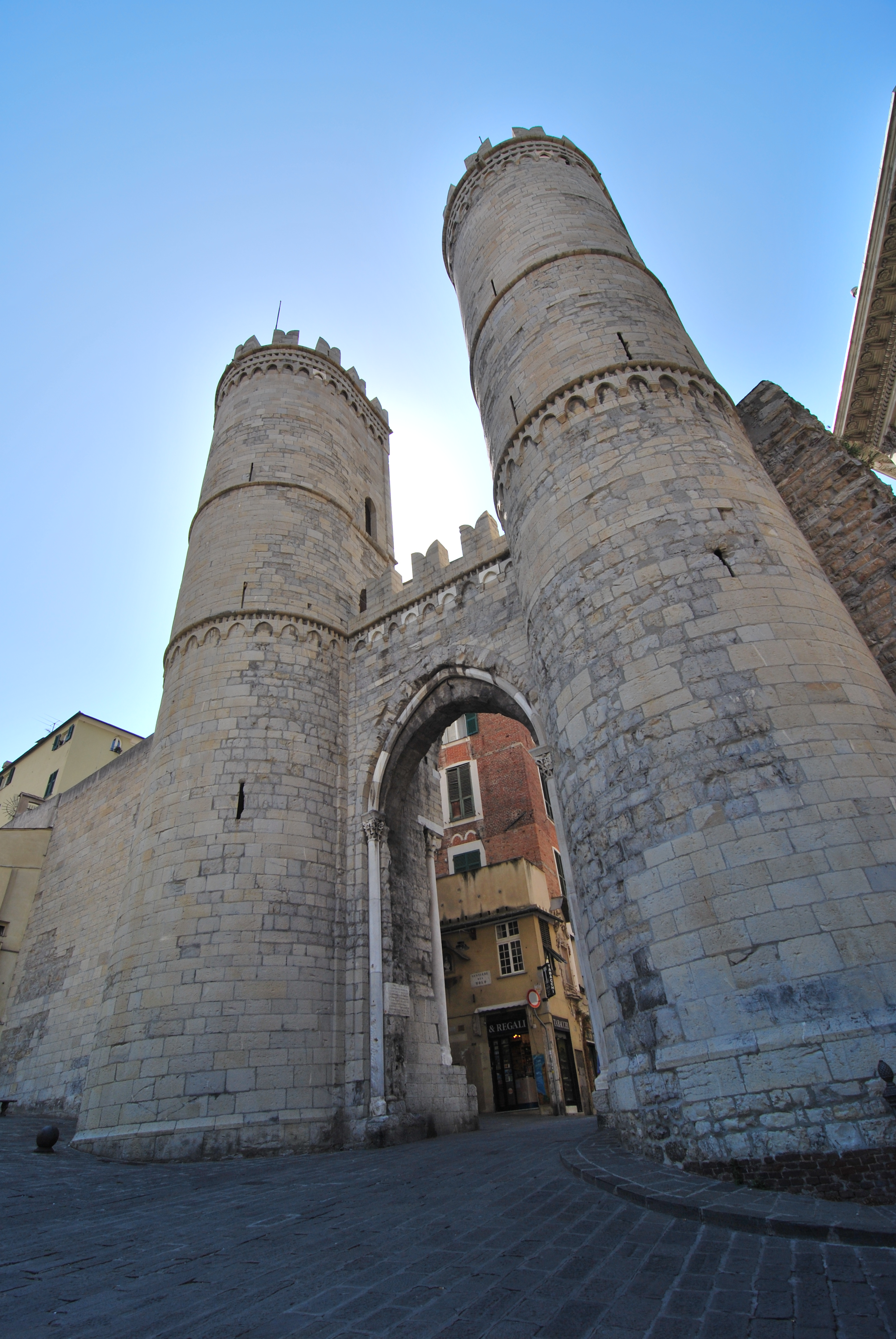 Porta Soprana, Genoa Genova